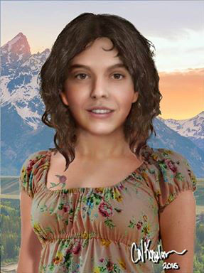 Forensic facial reconstruction of an unidentified murder victim found in 1992 in Sweetwater, Wyoming. She was nicknamed "Bitter Creek Betty for the creek that she was found near. This victim in particular may have been murdered by a serial killer.